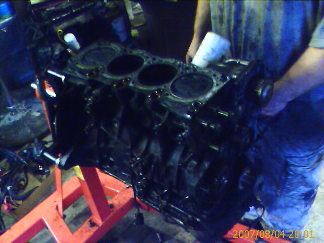 This is a Toyota 3S-GTE short block with approximately 150,000 miles on it. The carbon fouling is evident and starting to cause problems.